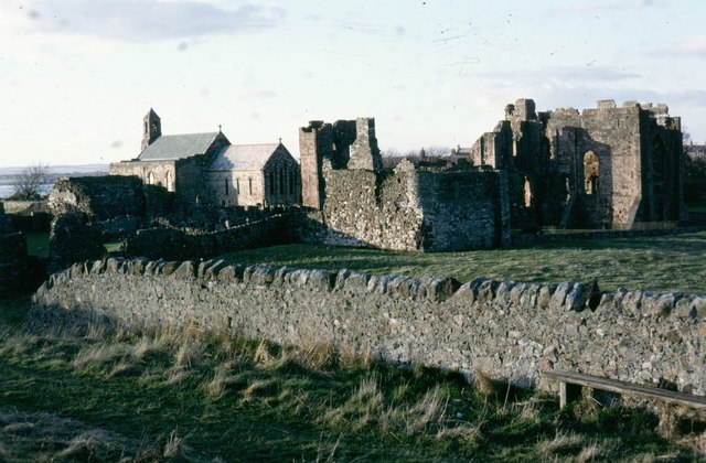 Lindisfarne Priory